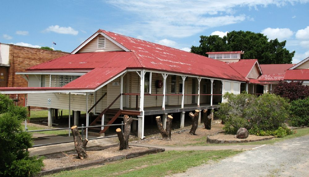 Maryborough Railway Station Complex, Loco office from NW (2007)